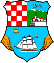 Official coat of arms of the Primorje-Gorski Kotar county in Croatia, made from gif version at by Željko Heimer